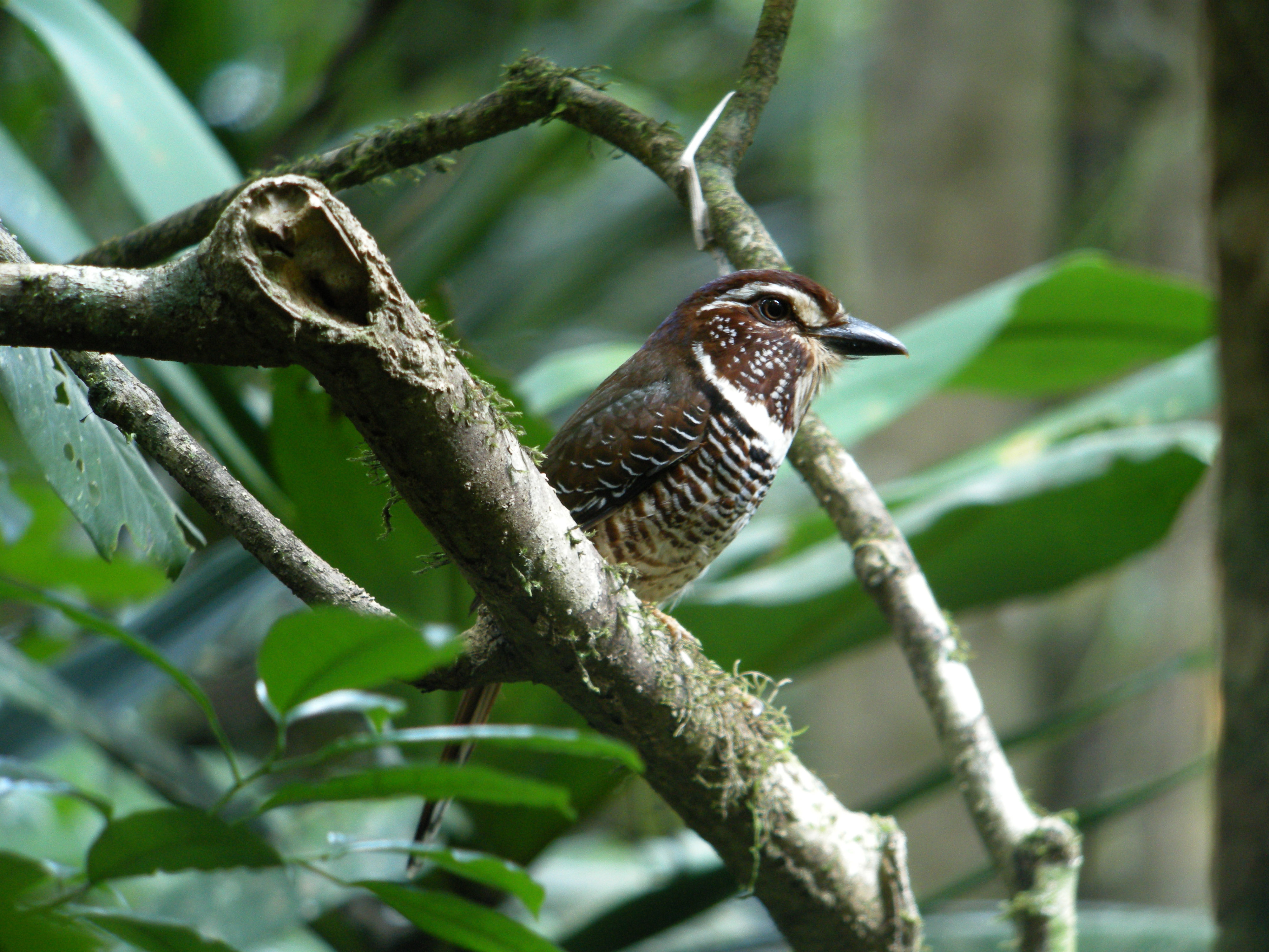 Short-legged Ground-roller, Masoala National Park, Madagascar Swarowski 80 HD 30 X, Coolpix P5100 (Adapter DCB)